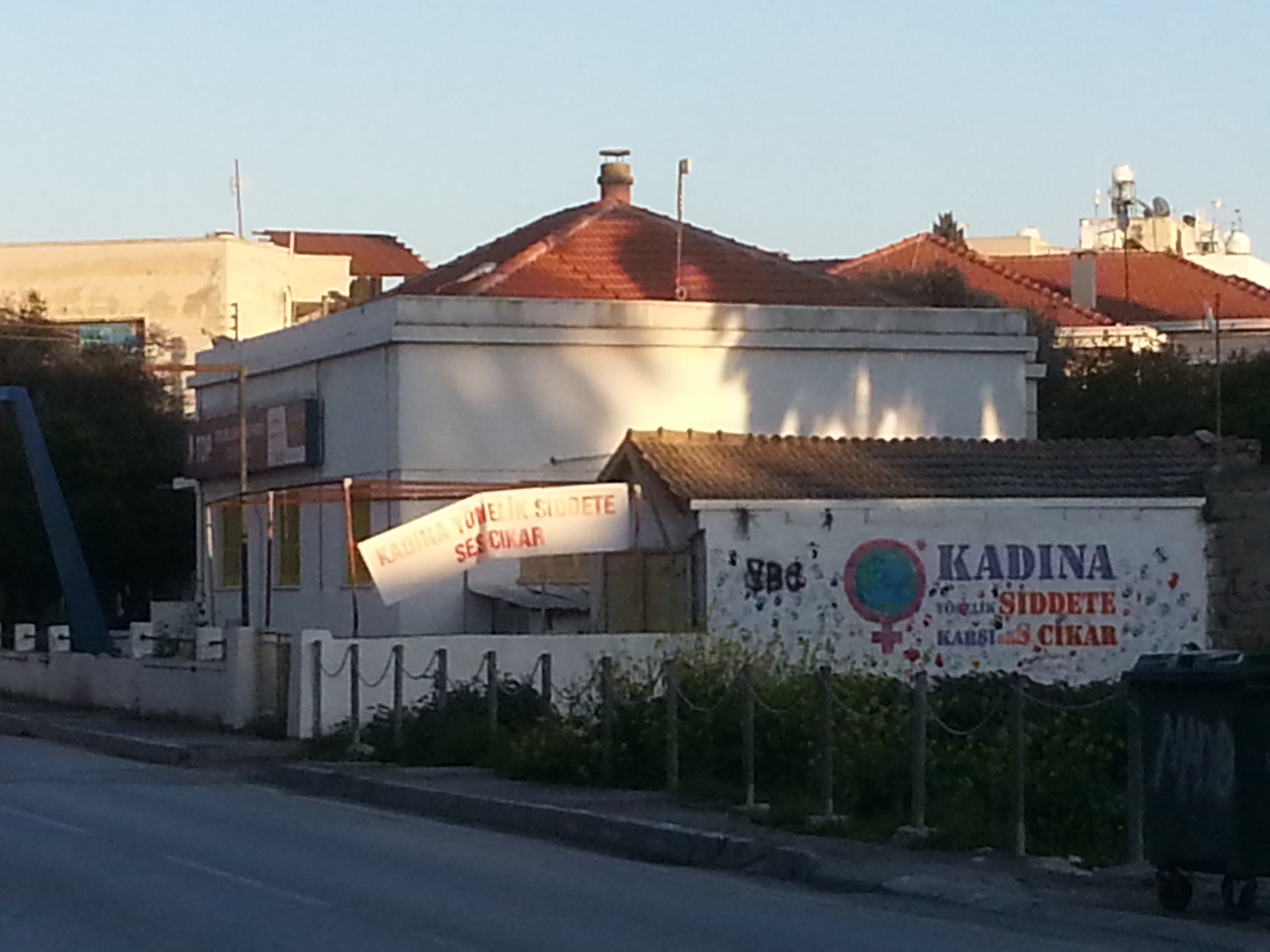 Grafitti and a poster protesting the murder of Özgecan Aslan (reading "speak out against violence against women") at the headquarters of the Communal Democracy Party, North Nicosia.